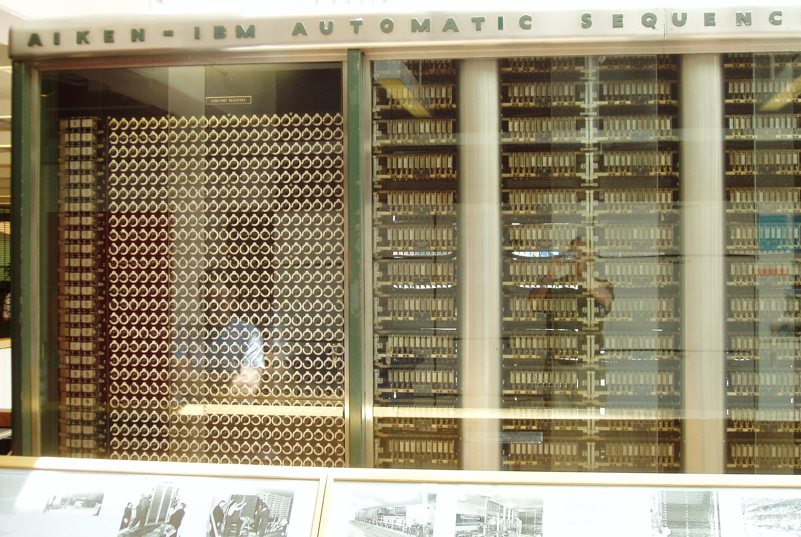 Harvard-IBM Mark I Computer, left side of the computer. This machine is in the Cabot Science Building, Harvard University, Cambridge, Massachusetts. Photograph taken by me, July 2005.